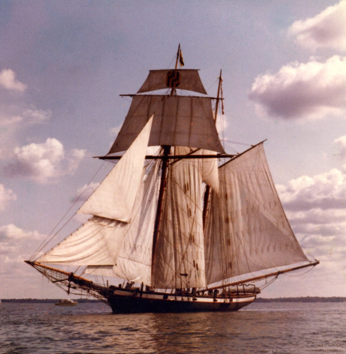 Pride of Baltimore on the Chester River, Maryland, October 1981